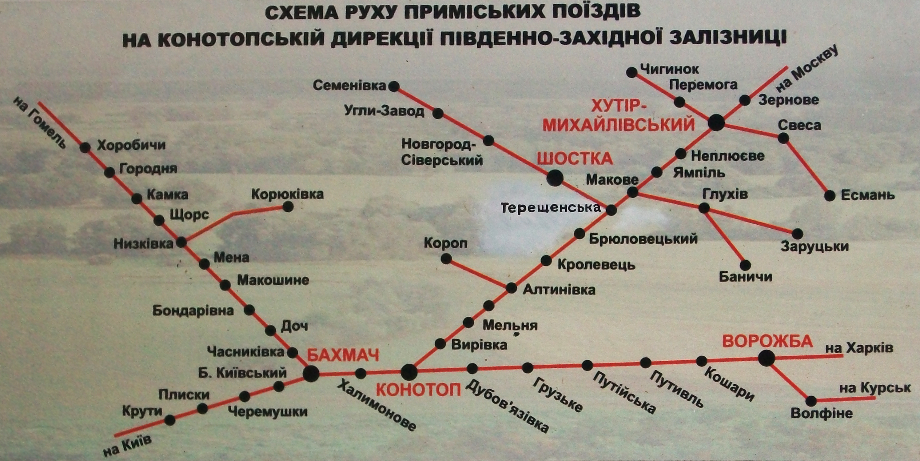 Plan of suburban trains at Konotop Board of South Western Railway